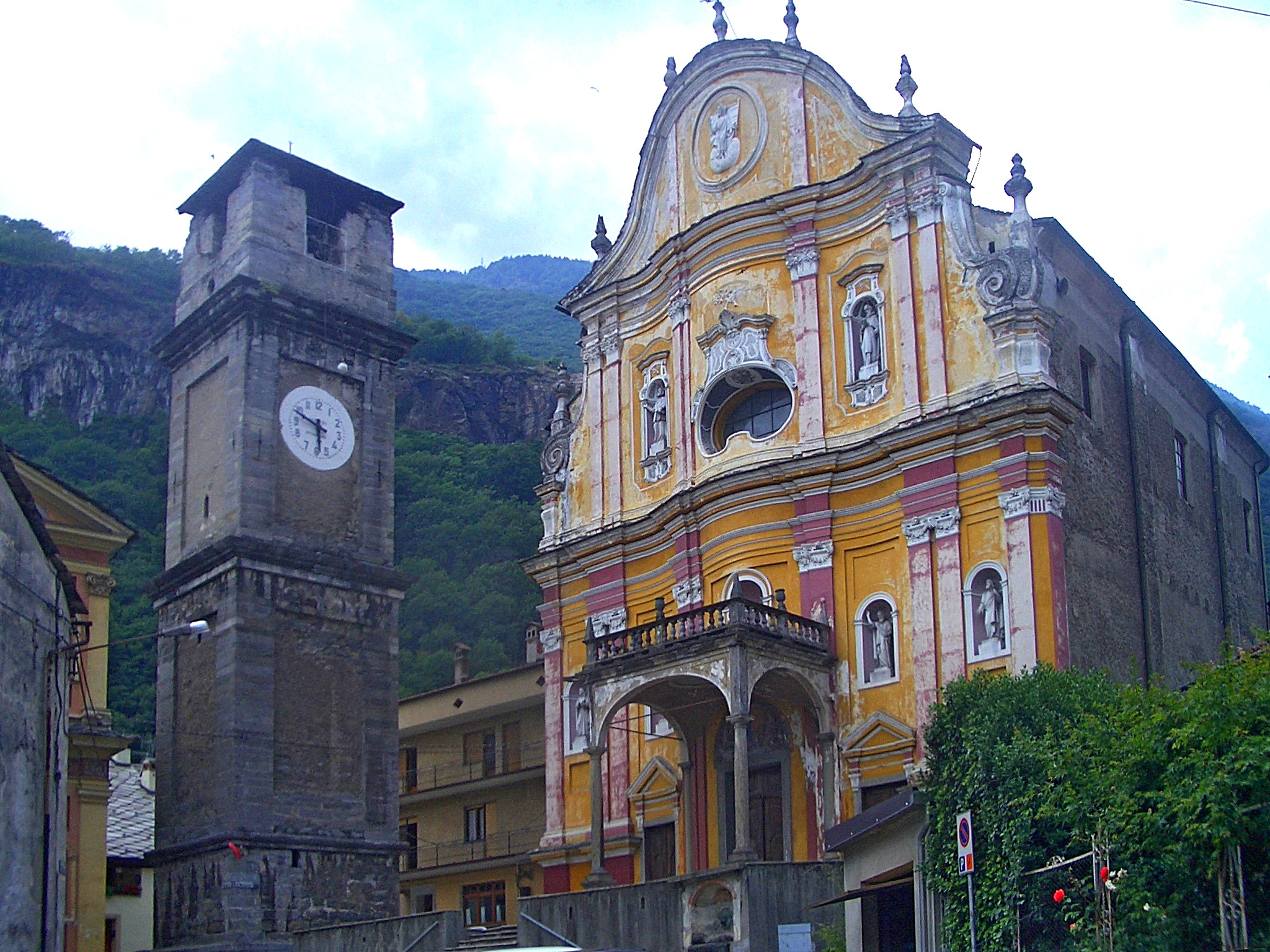 Quincinetto, the parish church (baroque architecture)